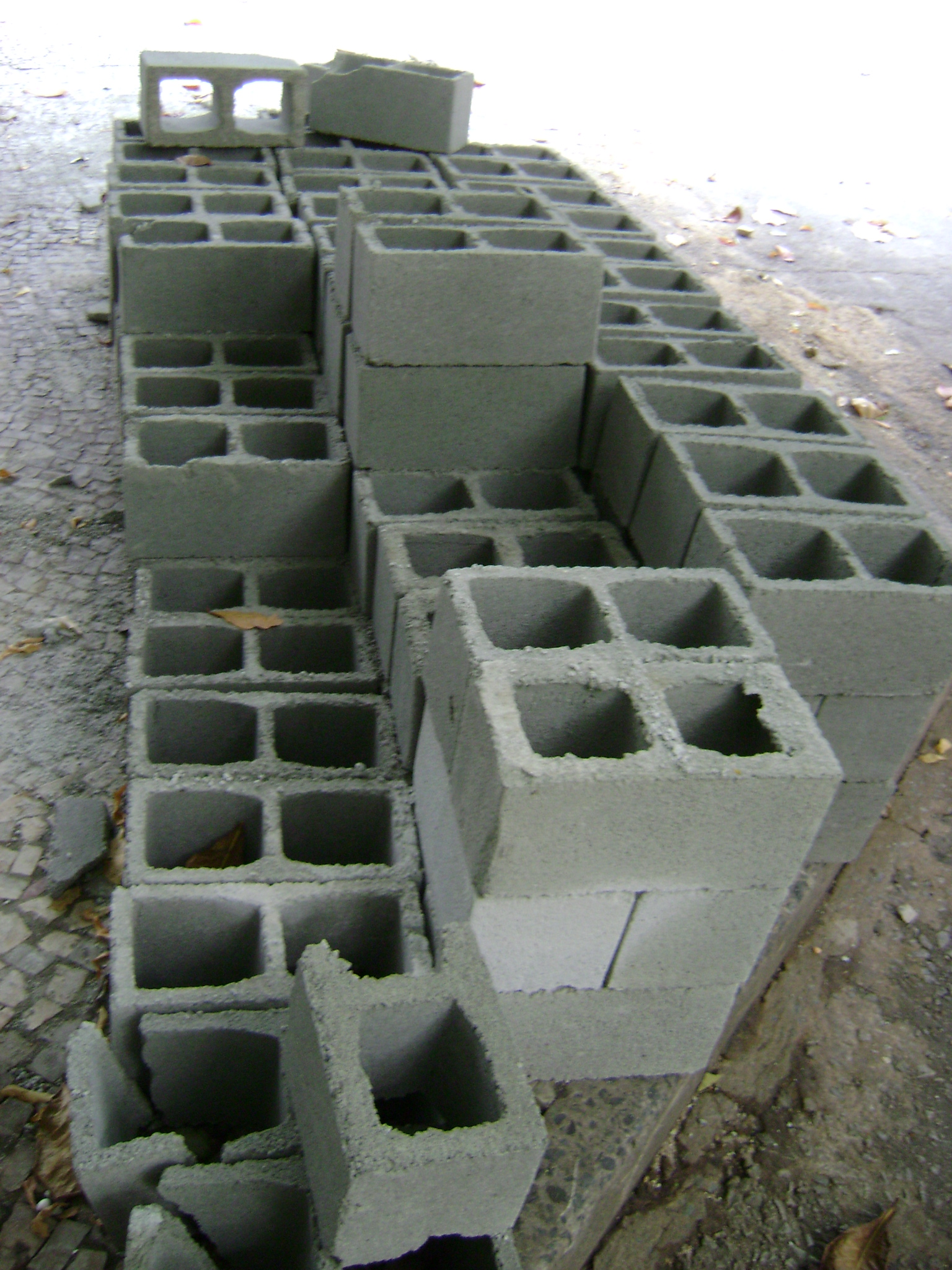 Blocos de concreto em Belo Horizonte.